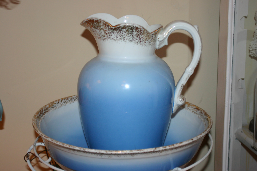 An antique ironstone ware pitcher and washbowl, late 19th/early 20th century.